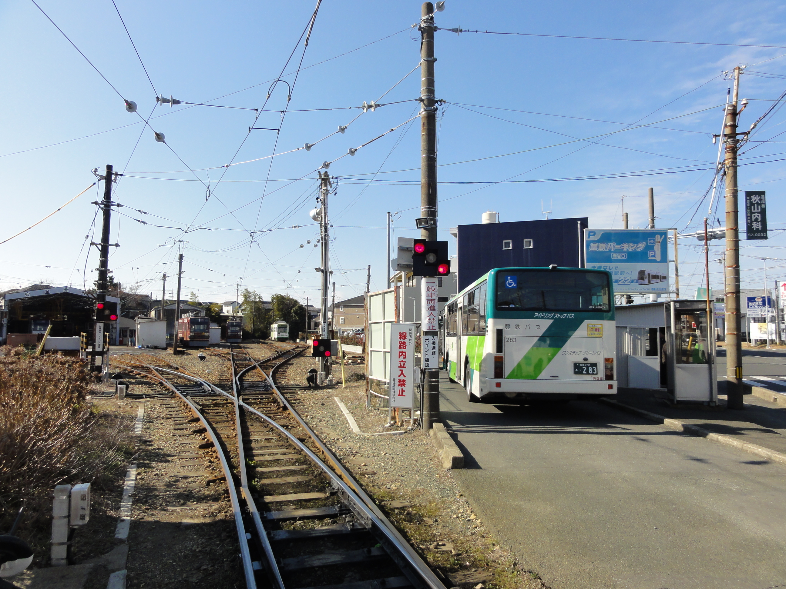 Toyohashi Rail Road Akaiwaguchi Depot and Toyotetsu Bus Akaiwaguchi Bus Stop